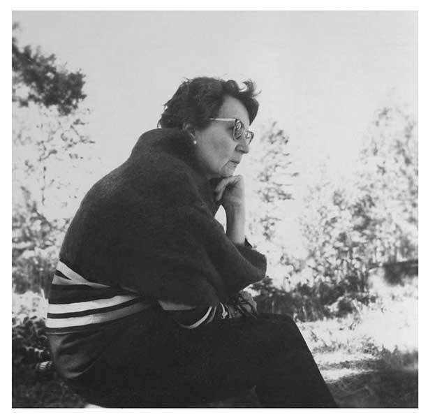 Photograph of the Finnish writer Viola Kuoksa (1904–1995) at Ukonjärvi.